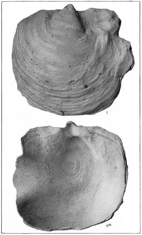 Original Caption: Fossil shells, Gryphaea vesicularis, from the base of the Saratoga Chalk-Marl. 1, Outside view of large valve; 1a, inside view of large valve. Natural size.